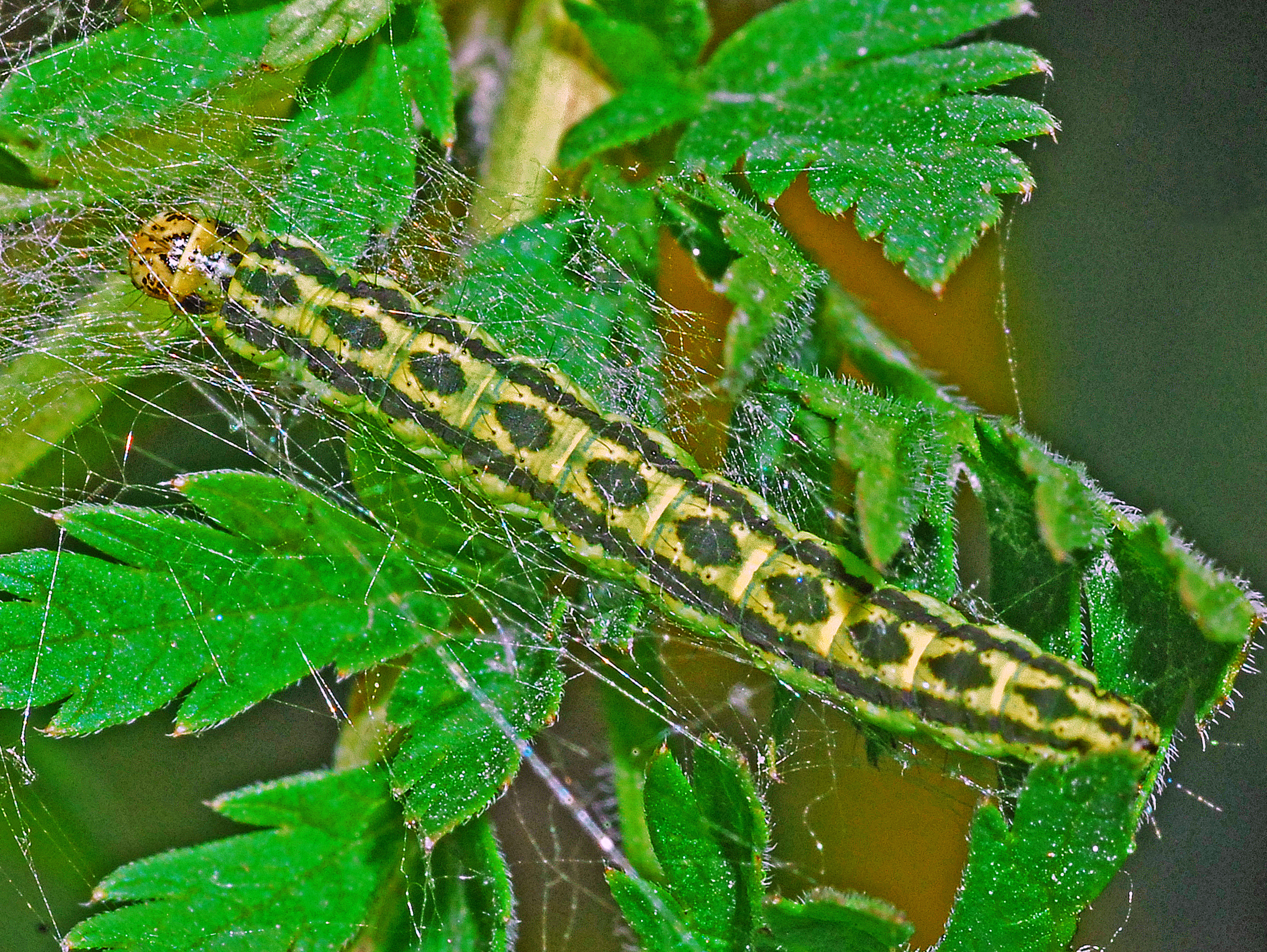 Caterpillar of Depressaria chaerophylli. Bousson, Torino, Italy